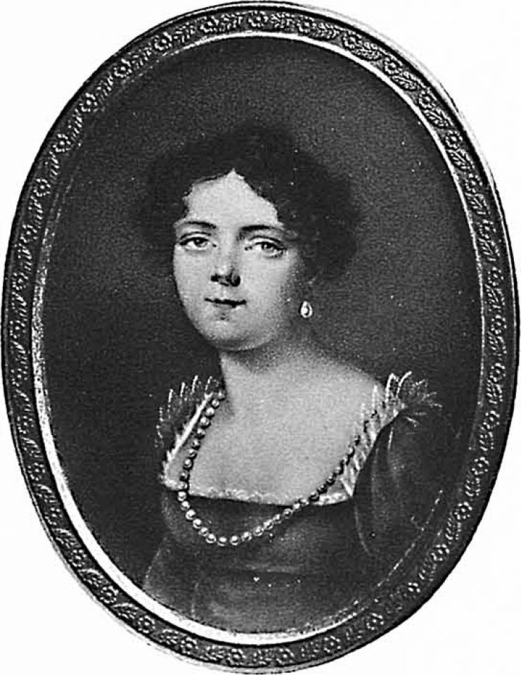 Portrait of Amalie Christiane von Baden (1776-1823)